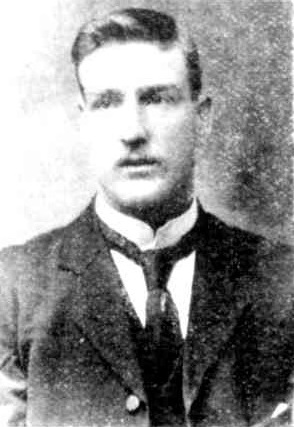 Photograph of Hugh Gavin featured in Punch Newspaper in 1901